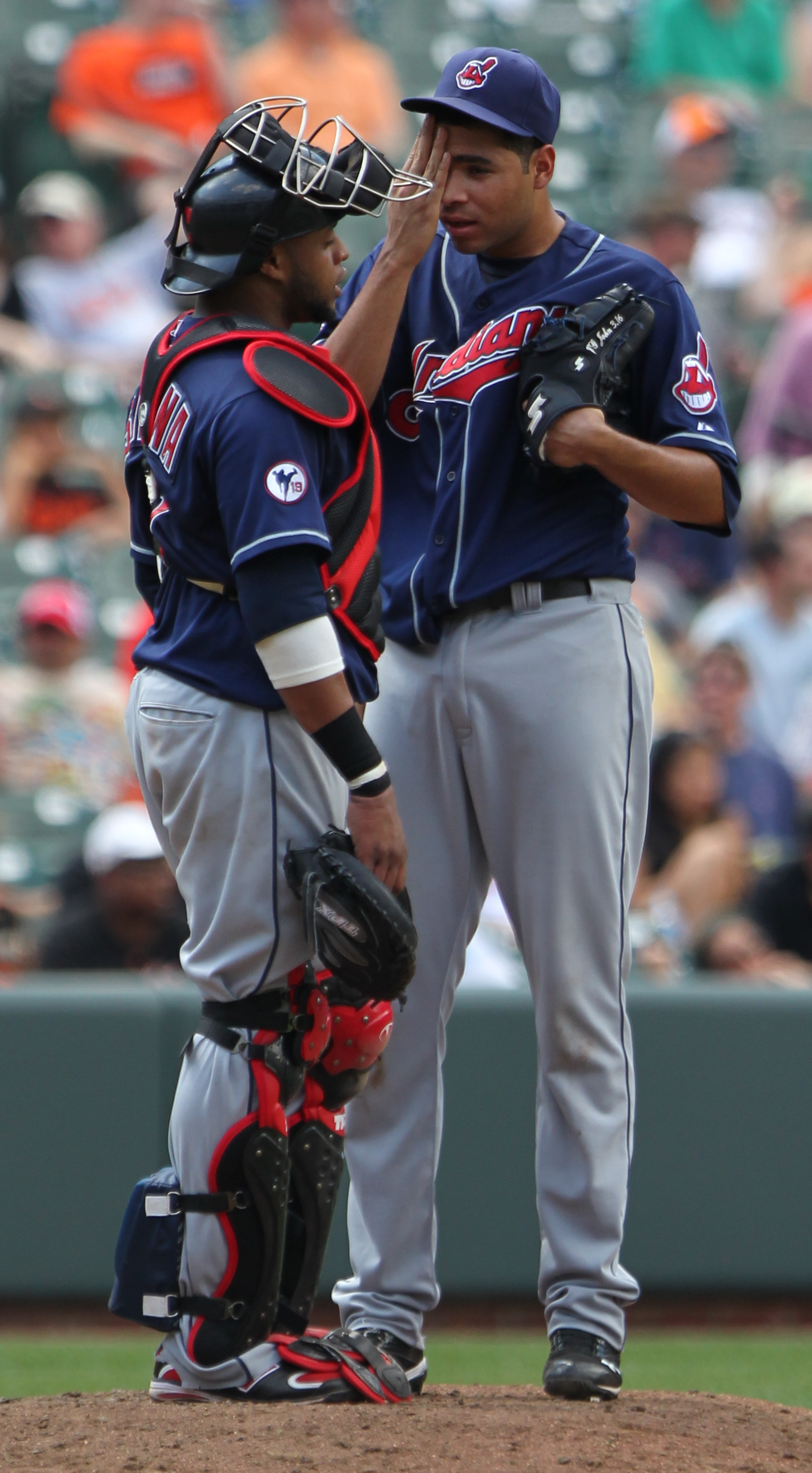 Indians at Orioles July 17, 2011.